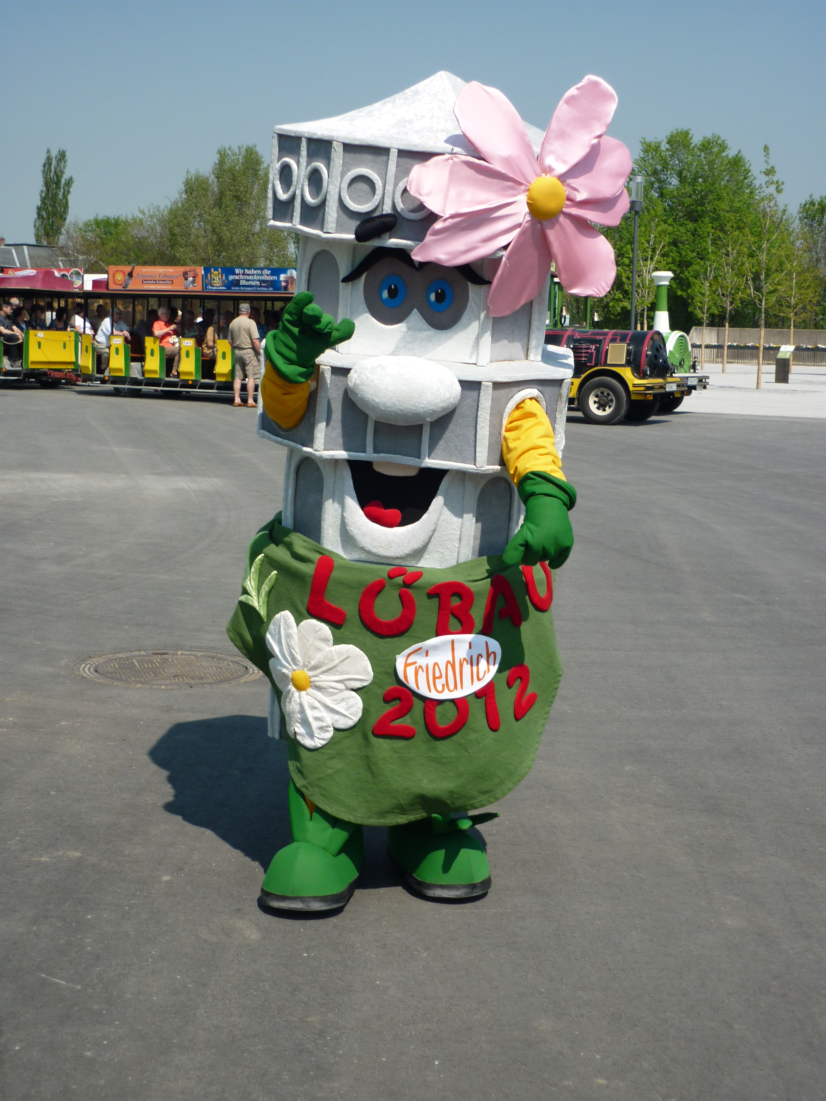 Friedrich, macost of horticultural show in Löbau 2012